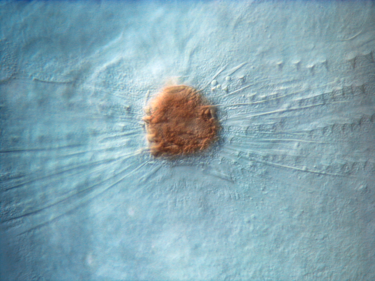 A syncytium forms after wounding the Drosophila epithelium.